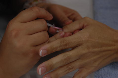 Ms. Emma Hoang works diligently at the manicure station during the "Spouse Appreciation Day" held on RAF Lakenheath, England May 15. Spouses were encouraged to come out to the base exchange and receive pampering services.